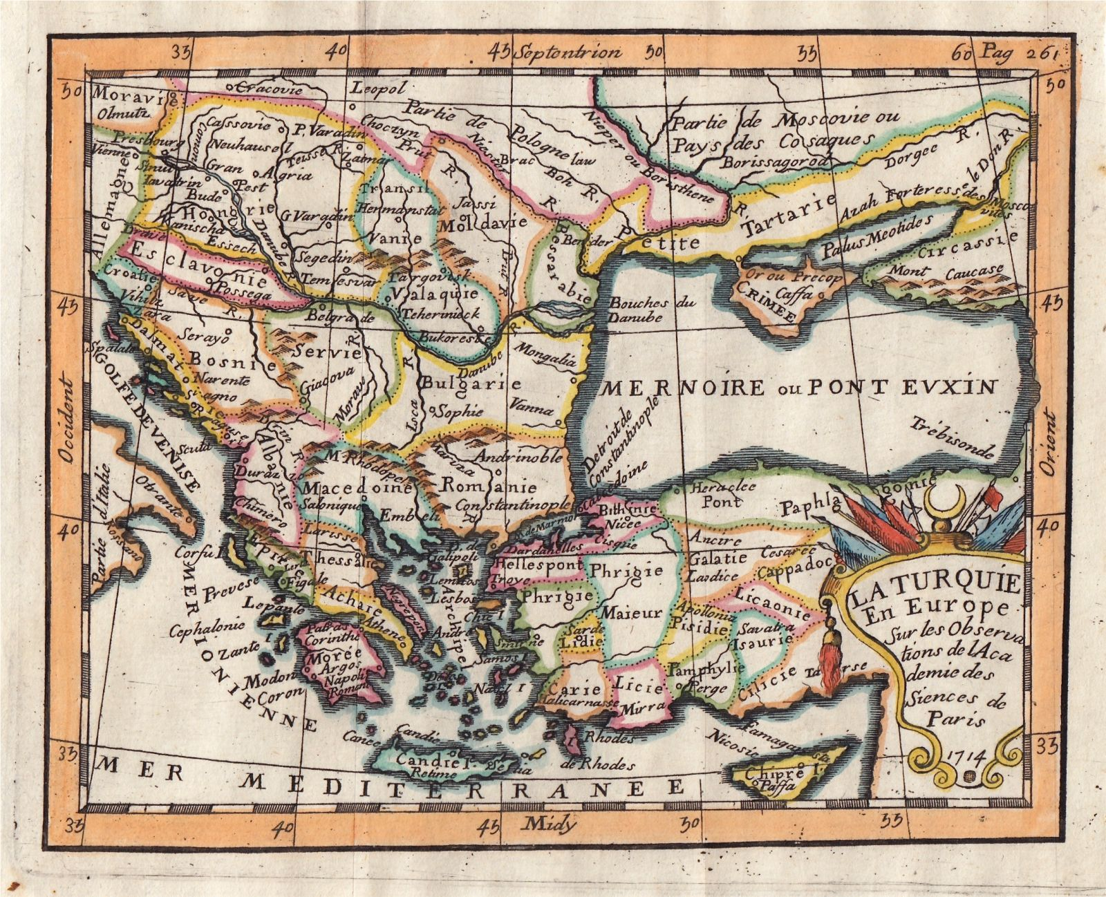 map of Turkey in Europe